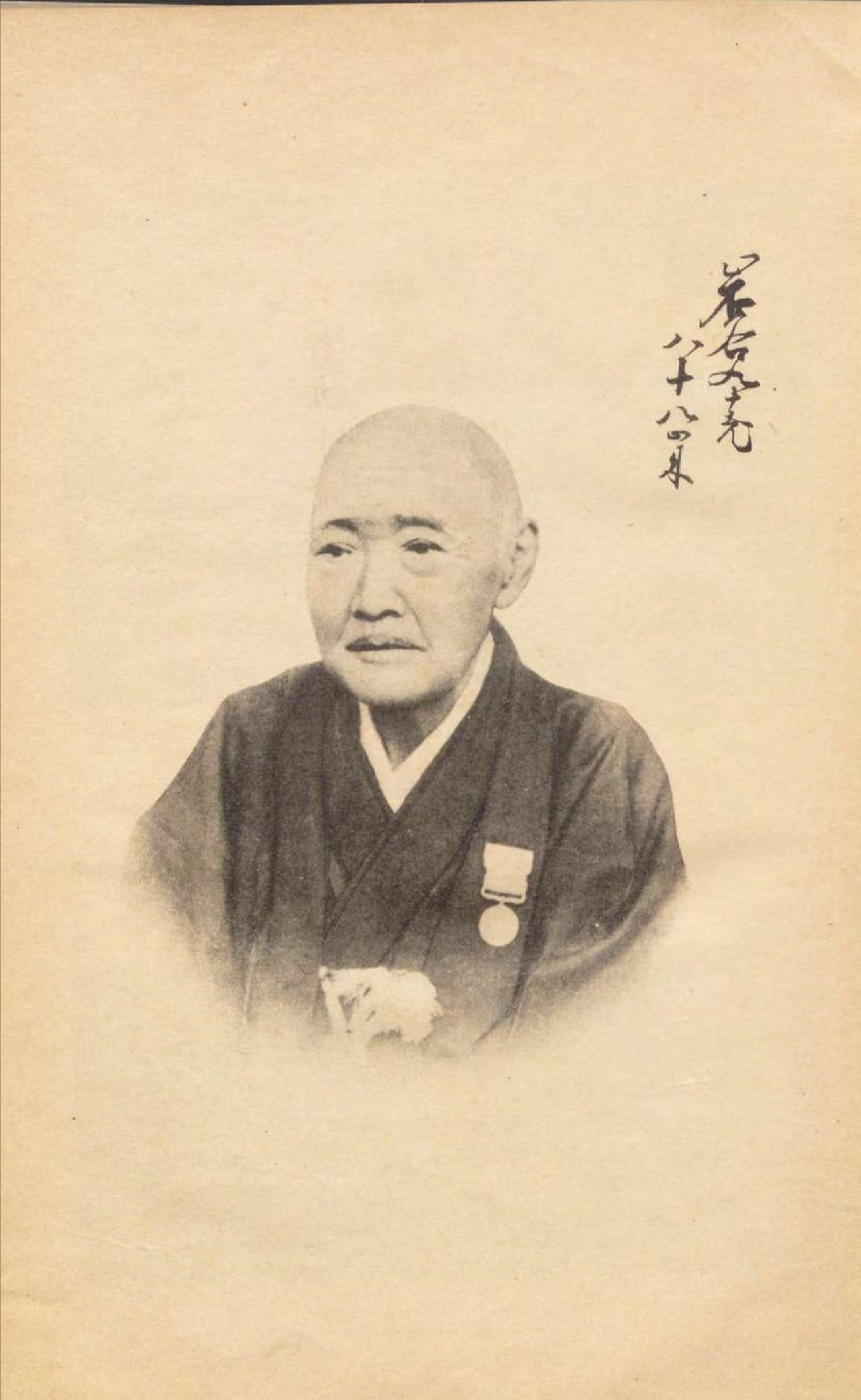 The photograph of Iwatani Kujyurou.